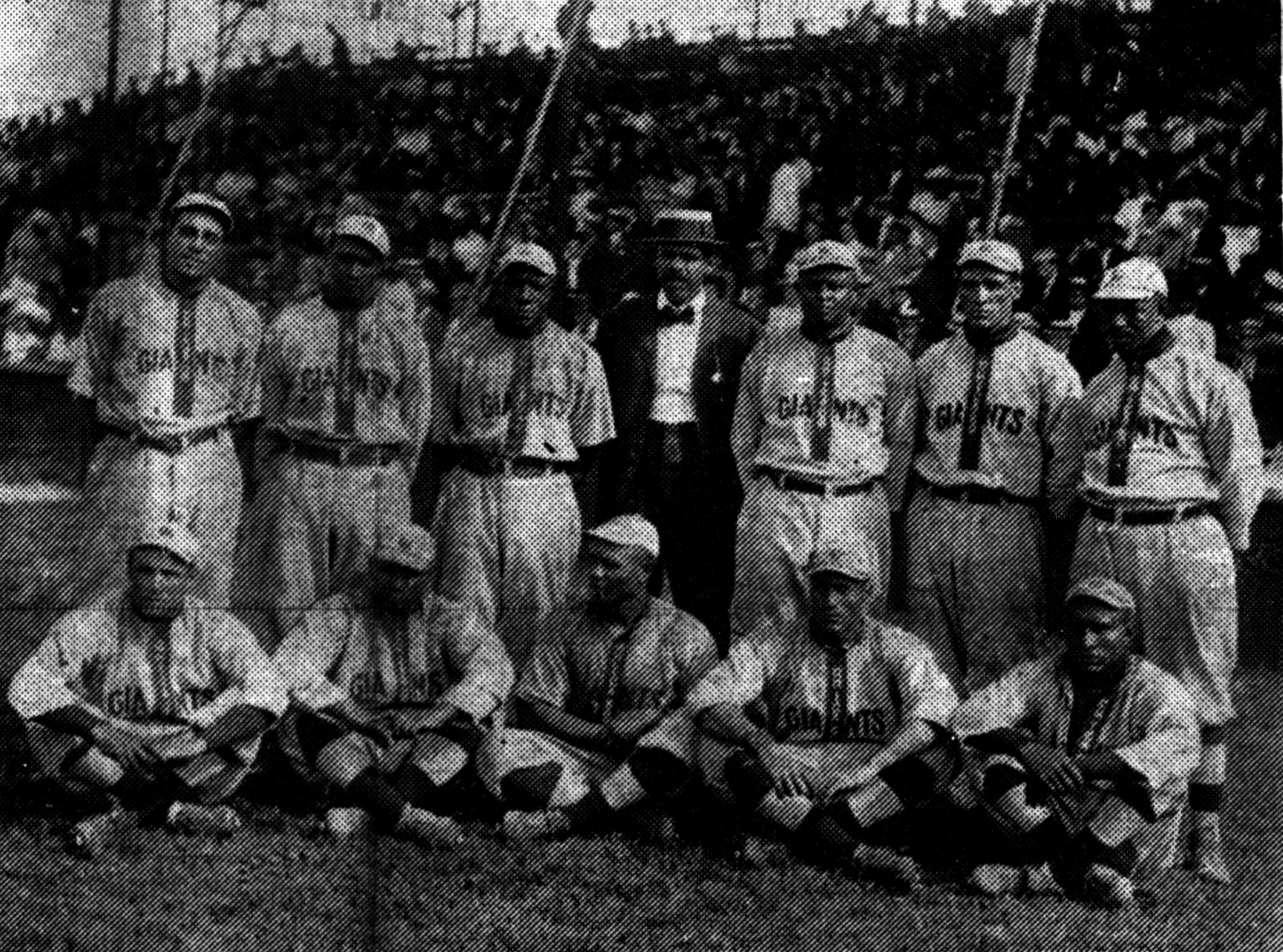 1910 photo of the Chicago Leland Giants from the Twin City Star Newspaper, Minneapolis, Minnesota, July 28, 1910, Page 4, Columns 3 to 5